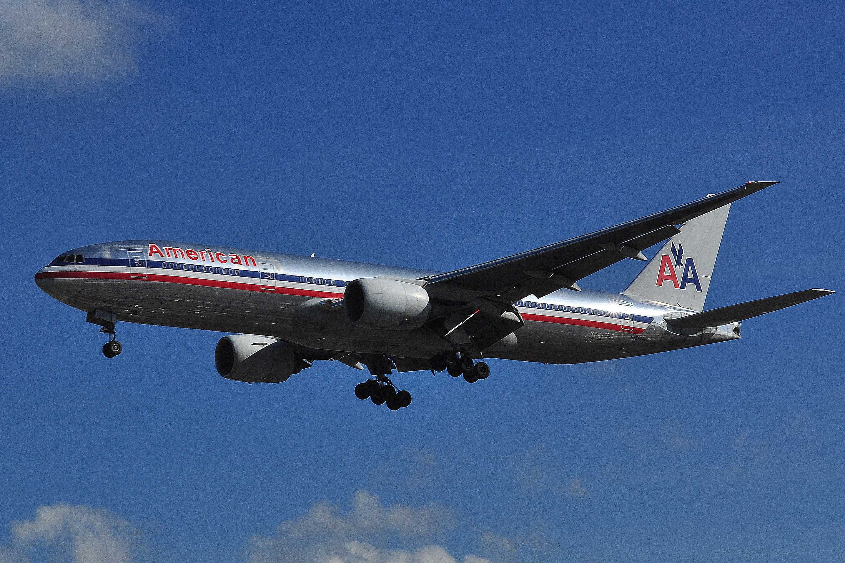 Boeing 777-223ER - American Airlines (reg:N756AM)